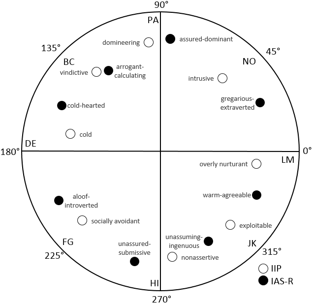 Component plot of IAS-R and IIP circumplex scales combined From: Lynn Alden; Jerry S. Wiggins; Aaron Pincus (1990): 'Construction of Circumplex Scales for the Inventory of Interpersonal Problems' in Journal of Personality Assessment, Volume 55, Issue 3-4, p. 521-36